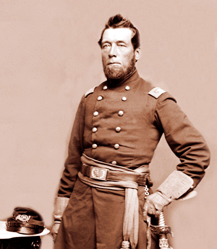 Civil War Photo of Colonel Andrew Derrom of Paterson, New Jersey